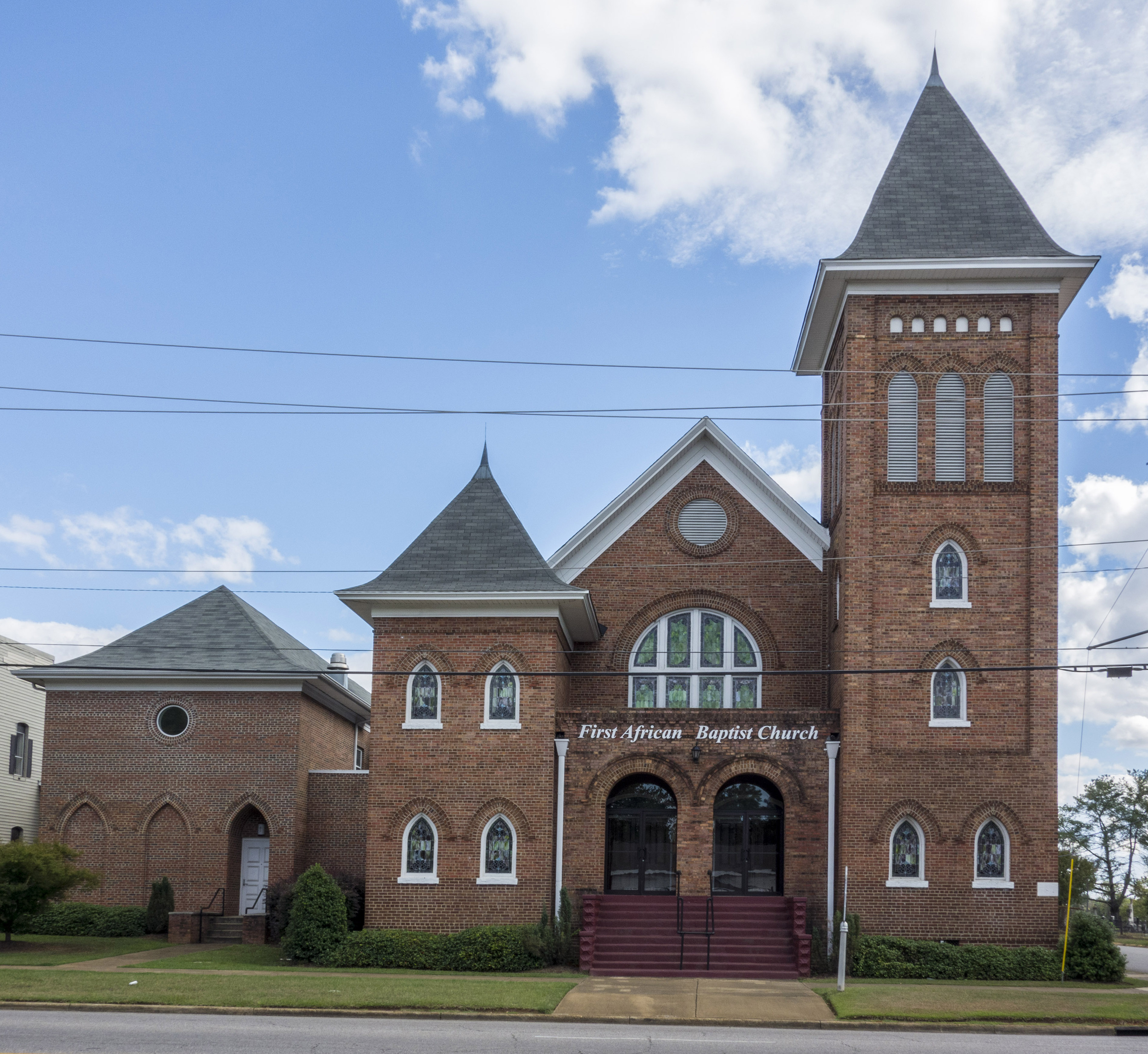 First African Baptist Church, 2621 9th St. Tuscaloosa